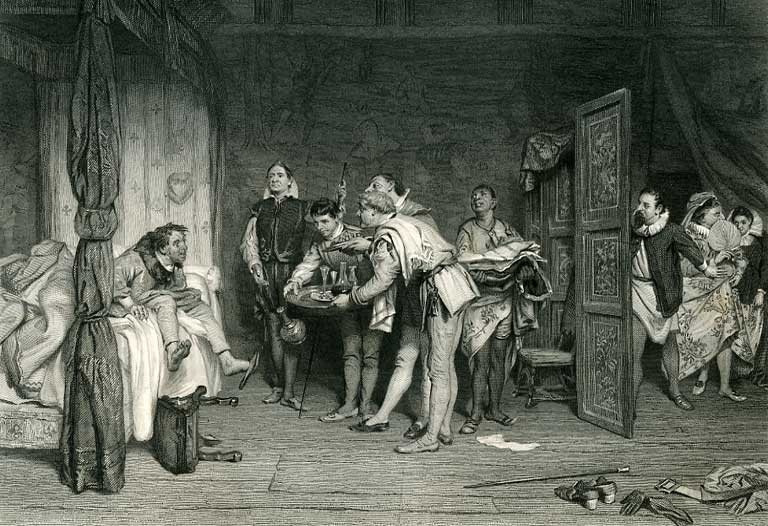 Christopher Sly from the Induction in The Taming of the Shrew